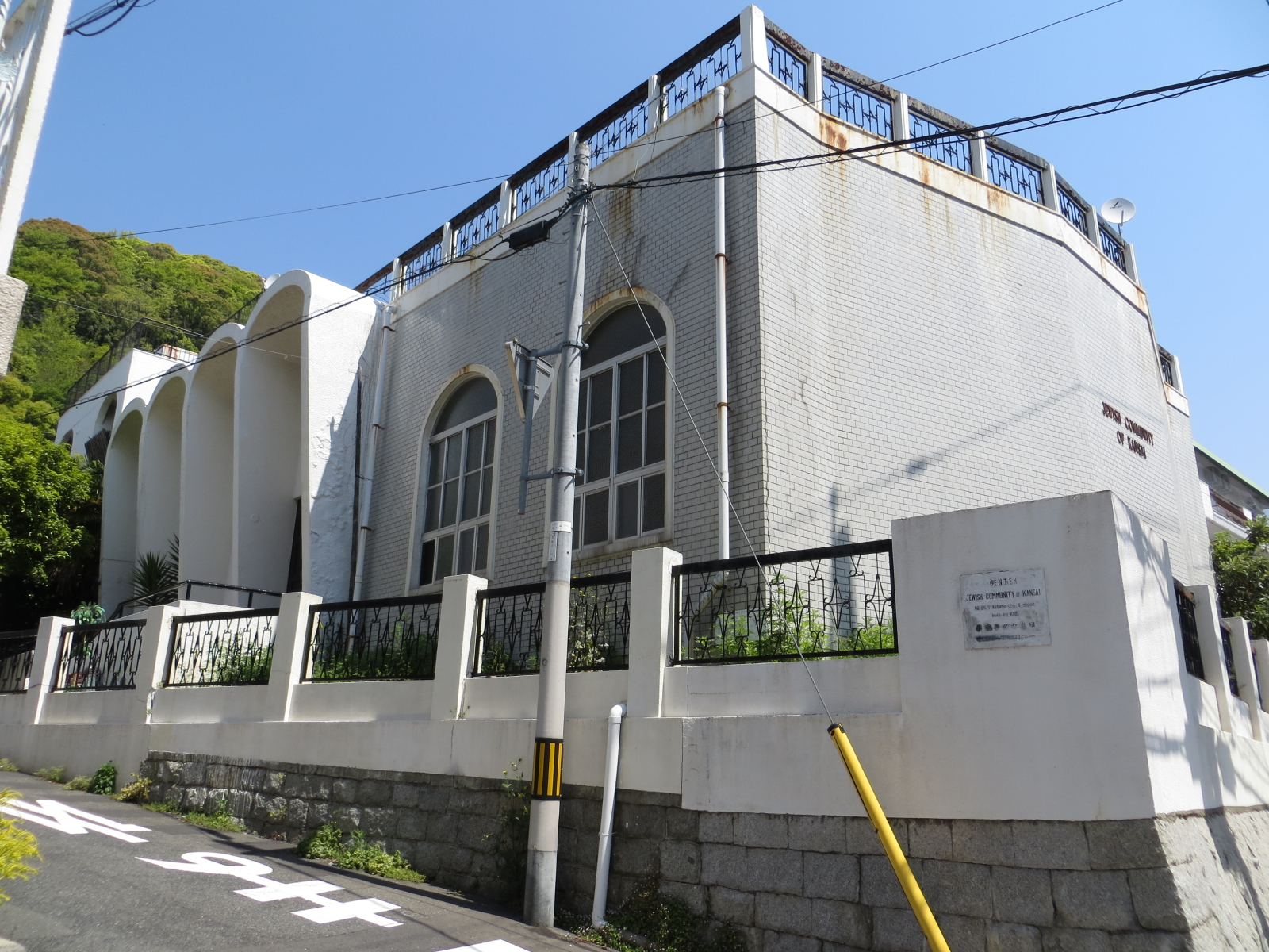 Jewish Community of Kansai, Kitano-chō, Kōbe.